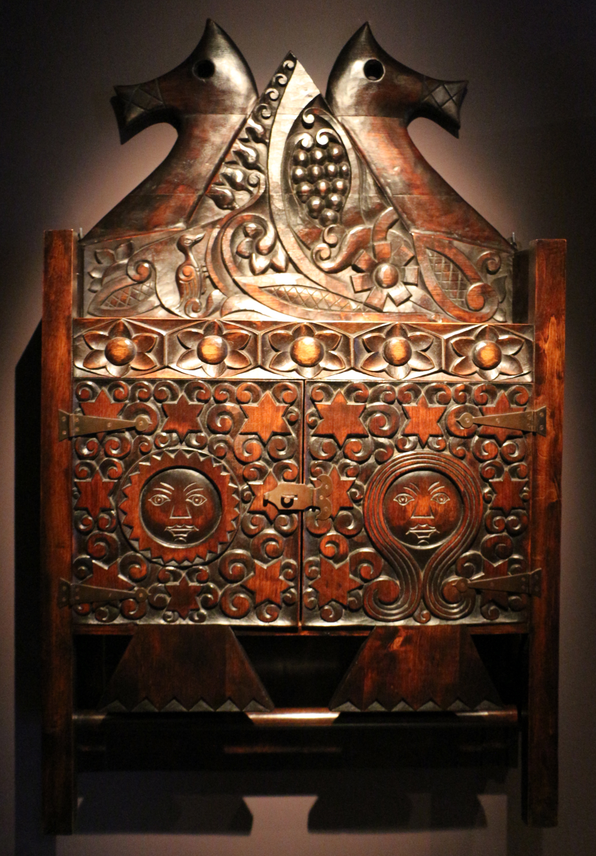 Decorative arts in the Musée d'Orsay